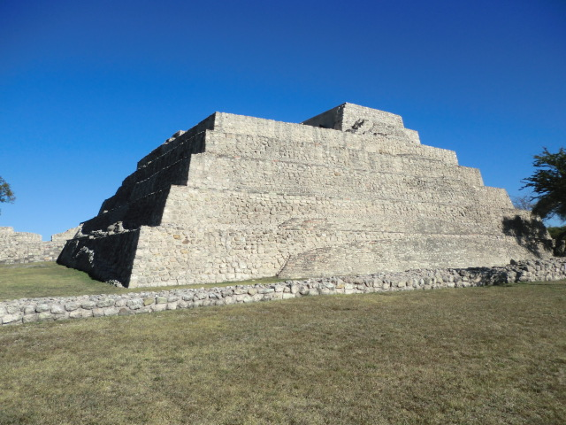 Pyramid of Cañada de la virgen, San Miguel de Allende, Mexico.